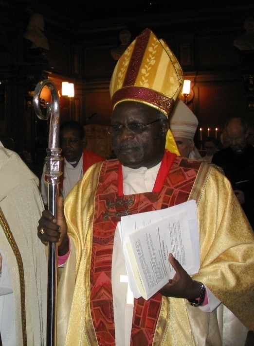 Bishop Walter Obare at the ordination of Arne Olsson as bishop in the Church of Sweden (Missionsprovinsen) in Gothenburg February 5th, 2005.